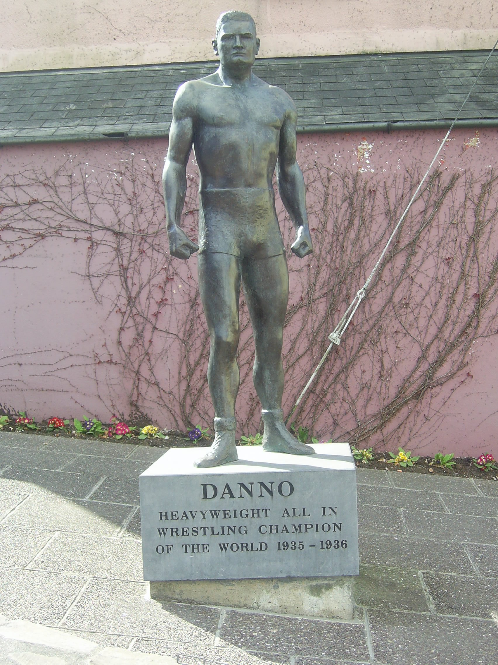 Statue commemorating Danno O'Mahony in his home town of Ballydehob, County Cork. Uploading pic of Danno's statue.